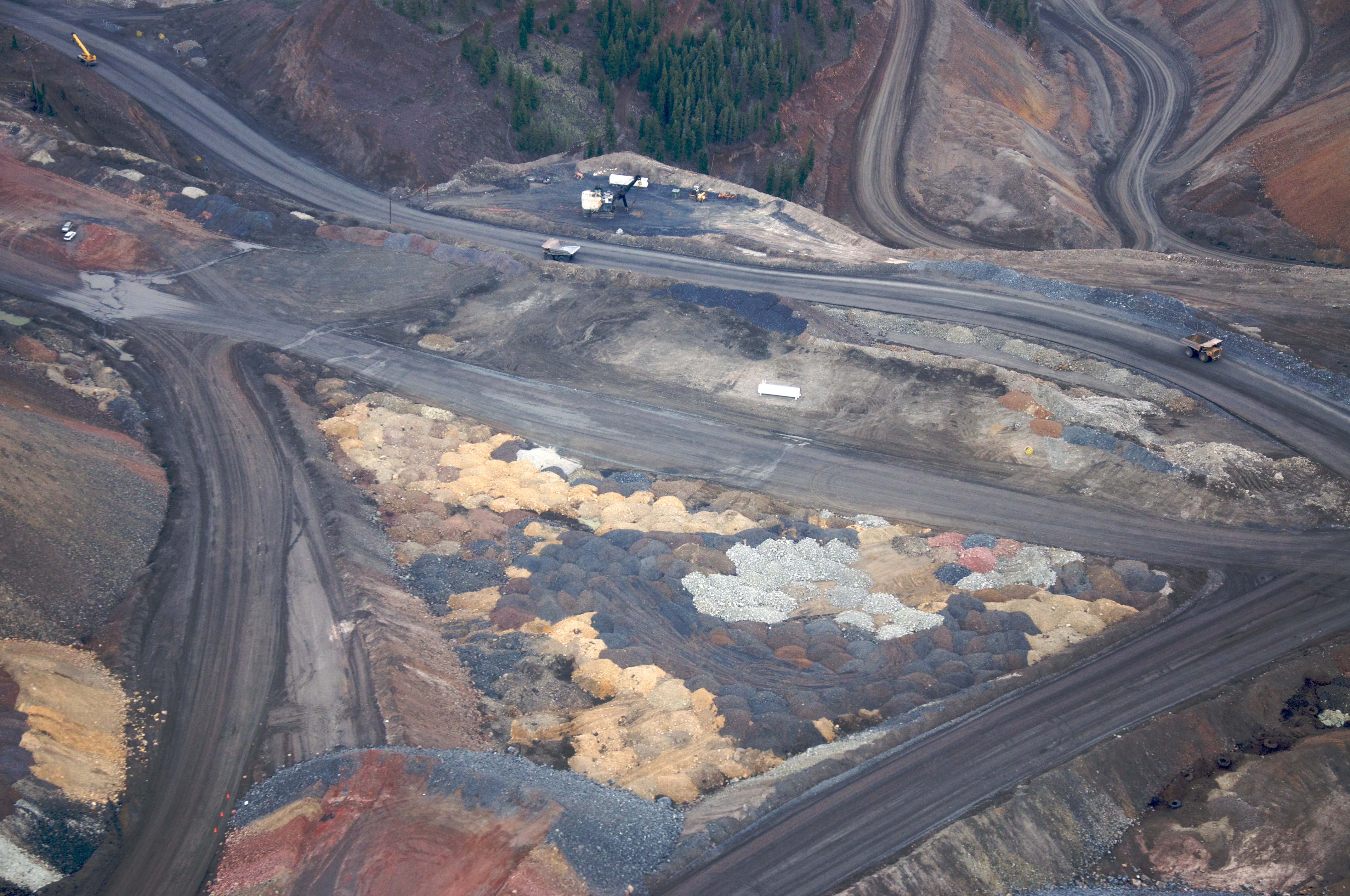 Aerial photograph of a large Molybdenum mine in Western US.